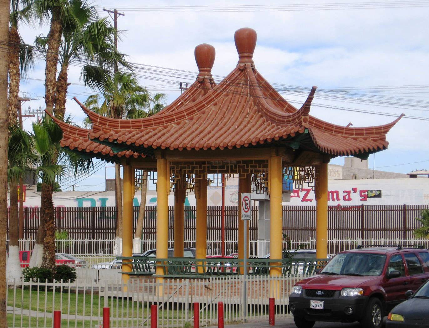 Plaza de la Amistad (Friendship Plaza) Pagoda located at the Mexicali border crossing in Mexicali Baja California Mexico